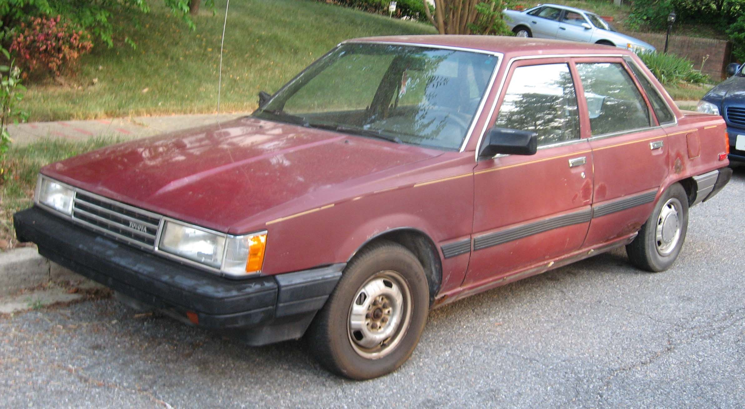 1985-1986 Toyota Camry photographed in USA.